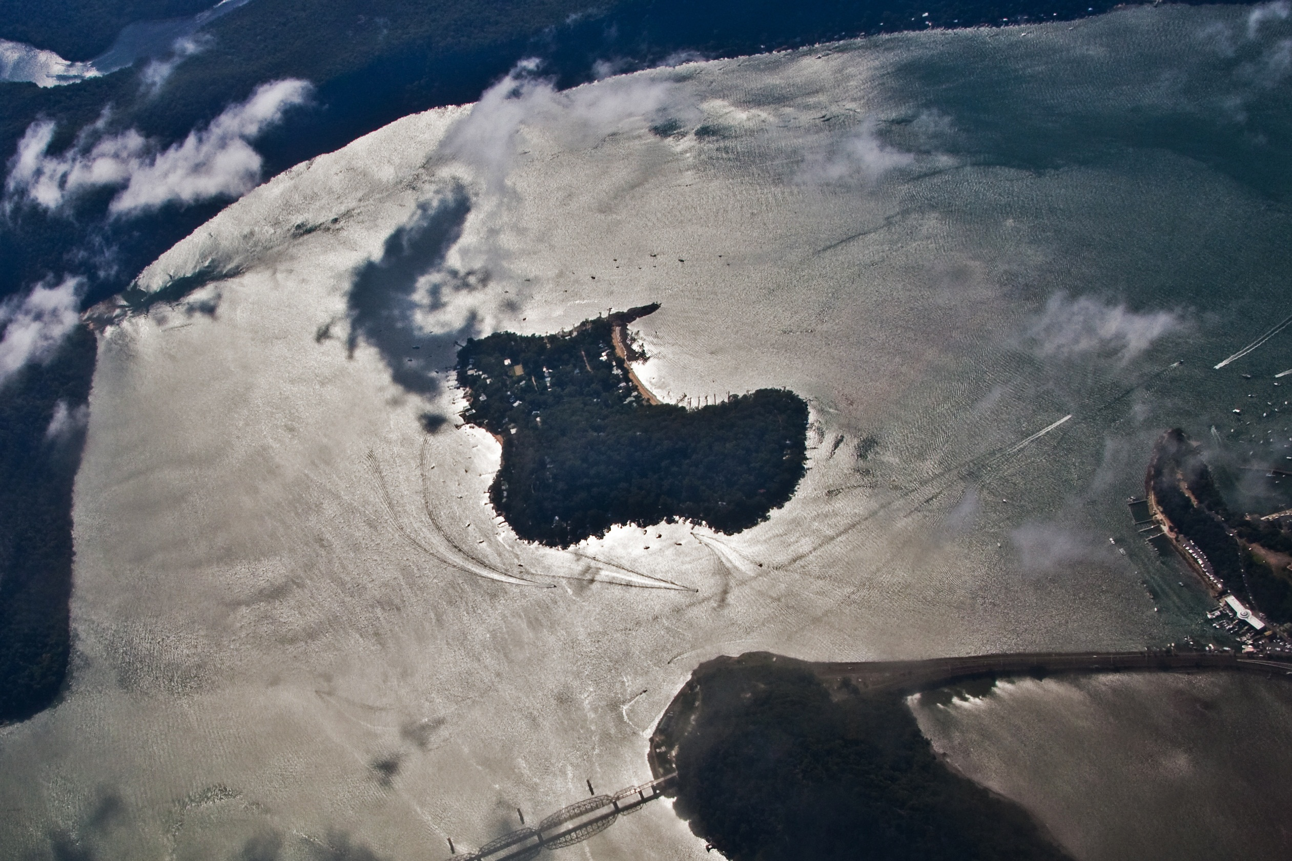 Dangar Island from an aircraft